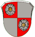 Coat of Arms of Altertheim